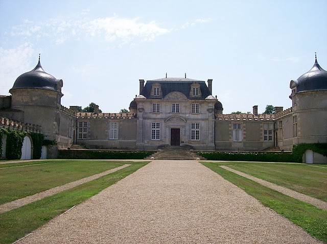 Front entrance of the Château de Malle